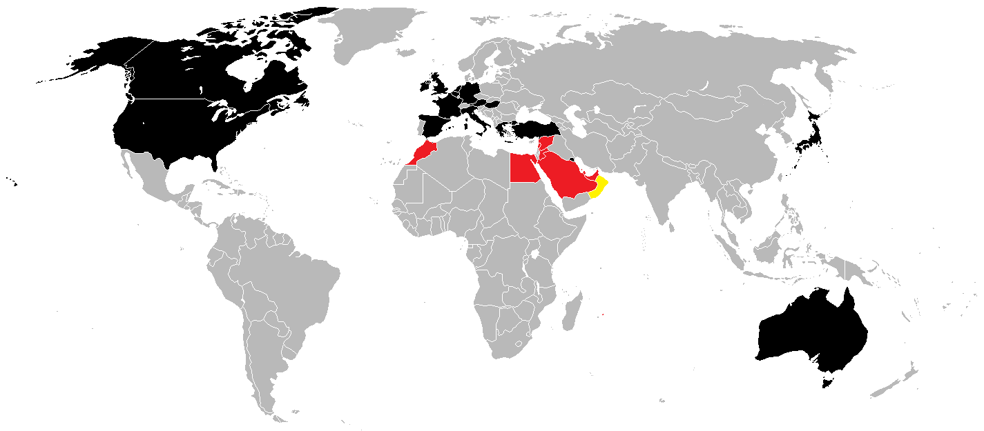 Map of Virgin Megastores/Former Virgin Megastores by Country